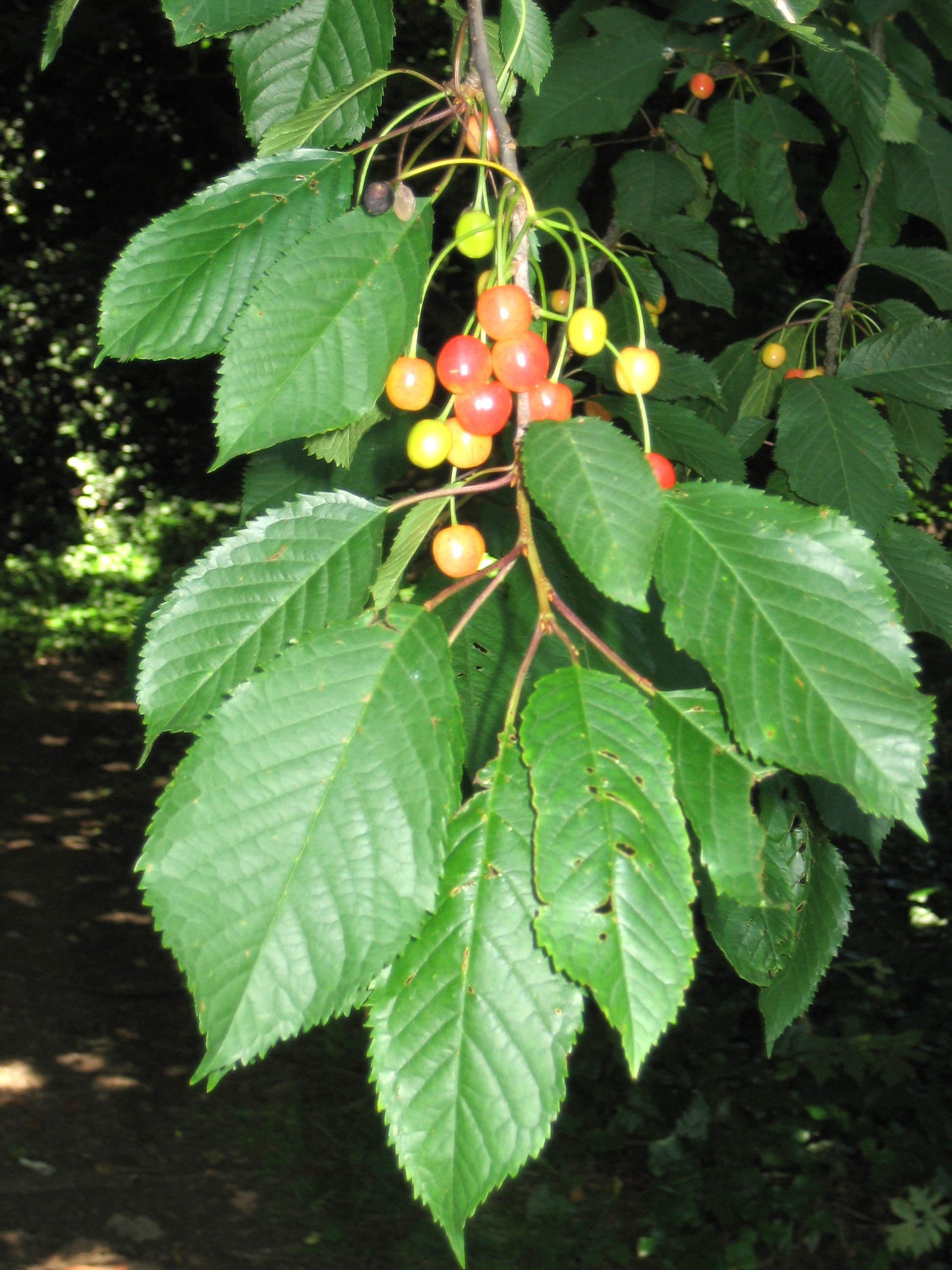 Wild Cherry Prunus avium ripening fruit; Northumberland, UK